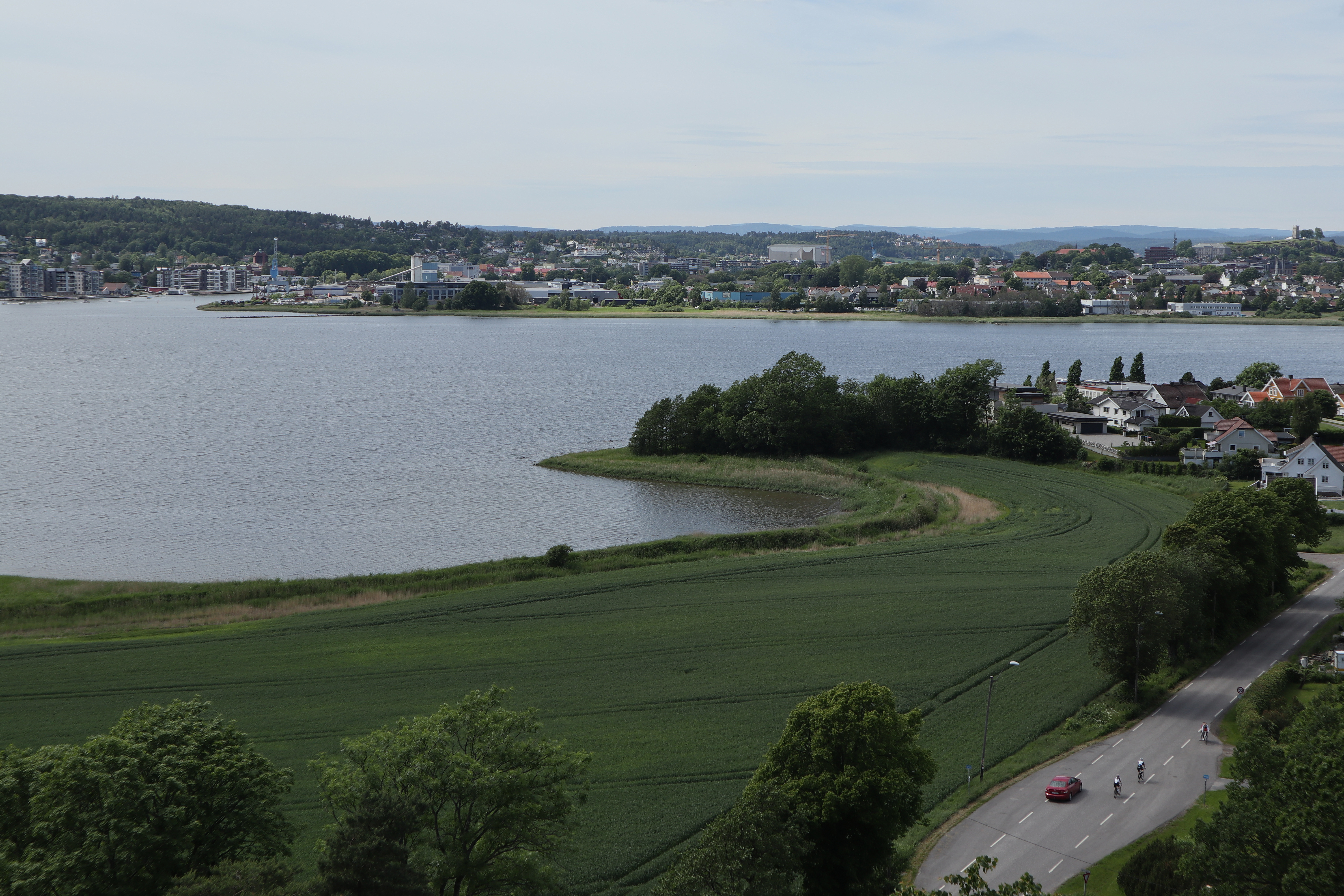 Tønsberg seen from Råelåsen